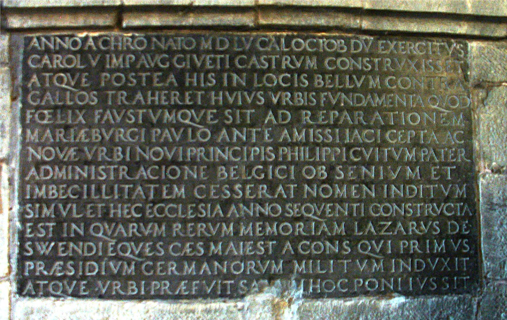 Foto: Guy Debognies (17/07/05) TEKST: ANNO A CHR(ist)O NATO MDLX CAL(endis) OCTOB(ribus) DU(m) EXERCITUS CAROL(i) V IMP(eratoris) AUG(usti) GIVETI CASTRUM CONSTRUXISSET ATQUE POSTEA HIS IN LOCIS BELLUM CONTRA GALLOS TRAHERET HUIUS URBIS FUNDAMENTA QUOD F[O]ELIX FAUSTUMQUE SIT AD REPARATIONEM MARIAEBURGI PAULO ANTE AMISSI IACI C EPTA AC NOVAE URBI NOVI PRINCIPIS PHILIPPI CUI TUM PATER ADMINISTRACIONE BELGICI OB SENIUM ET IMBECILLITATEM CESSERAT NOMEN INDITUM SIMUL ET H EC ECCLESIA ANNO SEQUENTI CONSTRUCTA EST IN QUARUM RERUM MEMORIAM LAZARUS DE SWENDI EQUES CAES(aris) MAIEST(atis) A CONS(ilio) QUI PRIMUS PRAESIDIUM GERMANORUM MILITUM INDUXIT ATQUE URBI PRAEFUIT S HOC PONI IUSSIT.